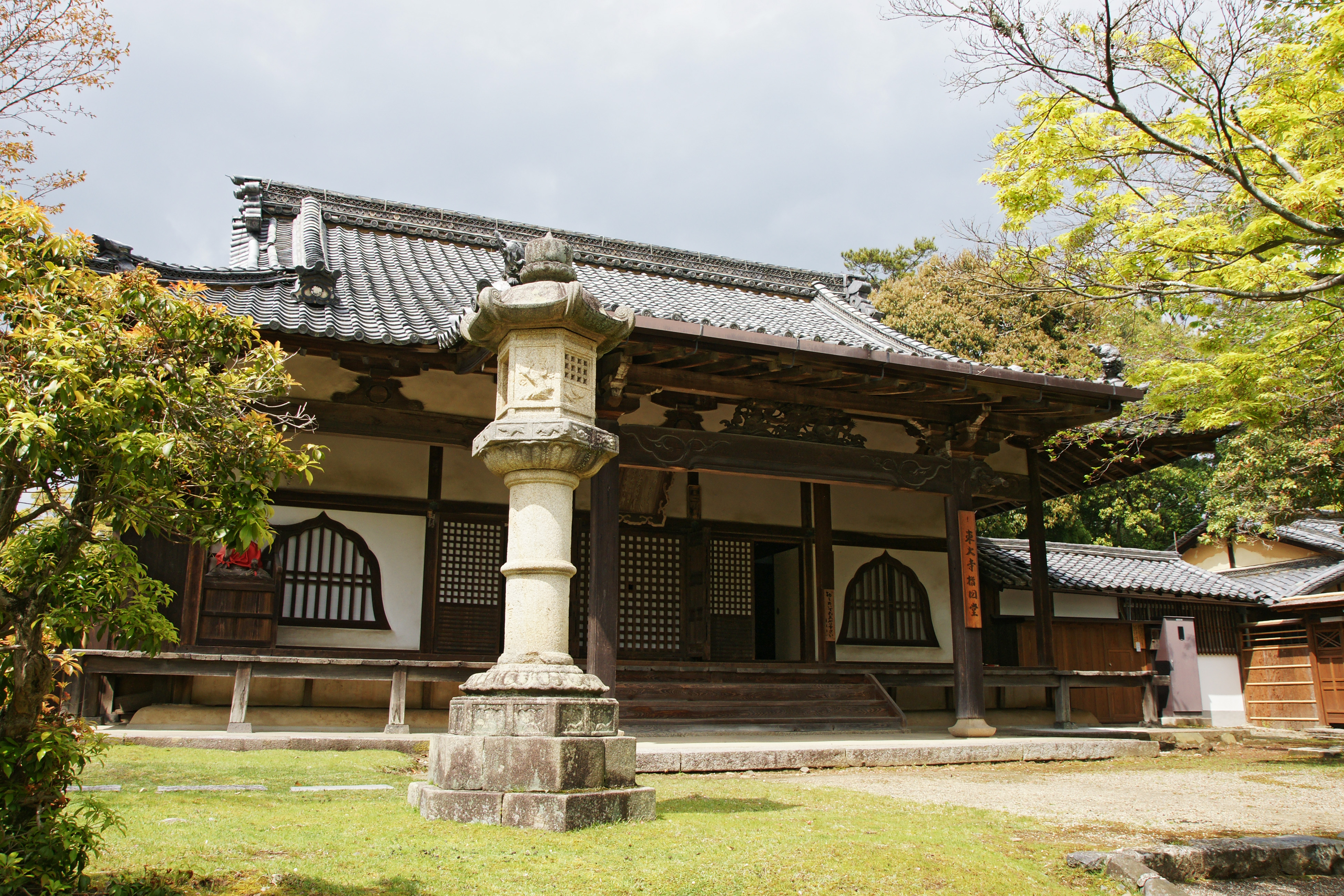 Sashizudo of Tōdai-ji in Nara, Nara prefecture, Japan.